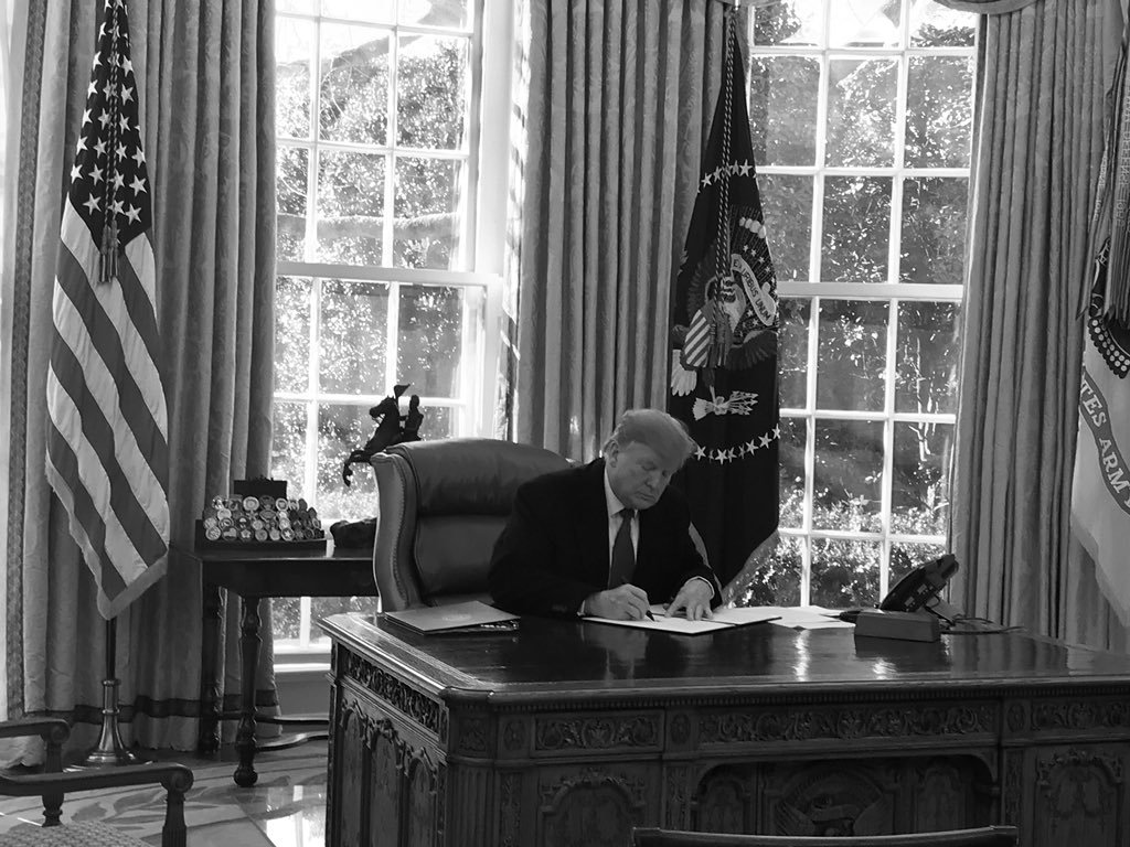 President Donald J. Trump signs the Declaration for a National Emergency to address the national security and humanitarian crisis at the Southern Border.